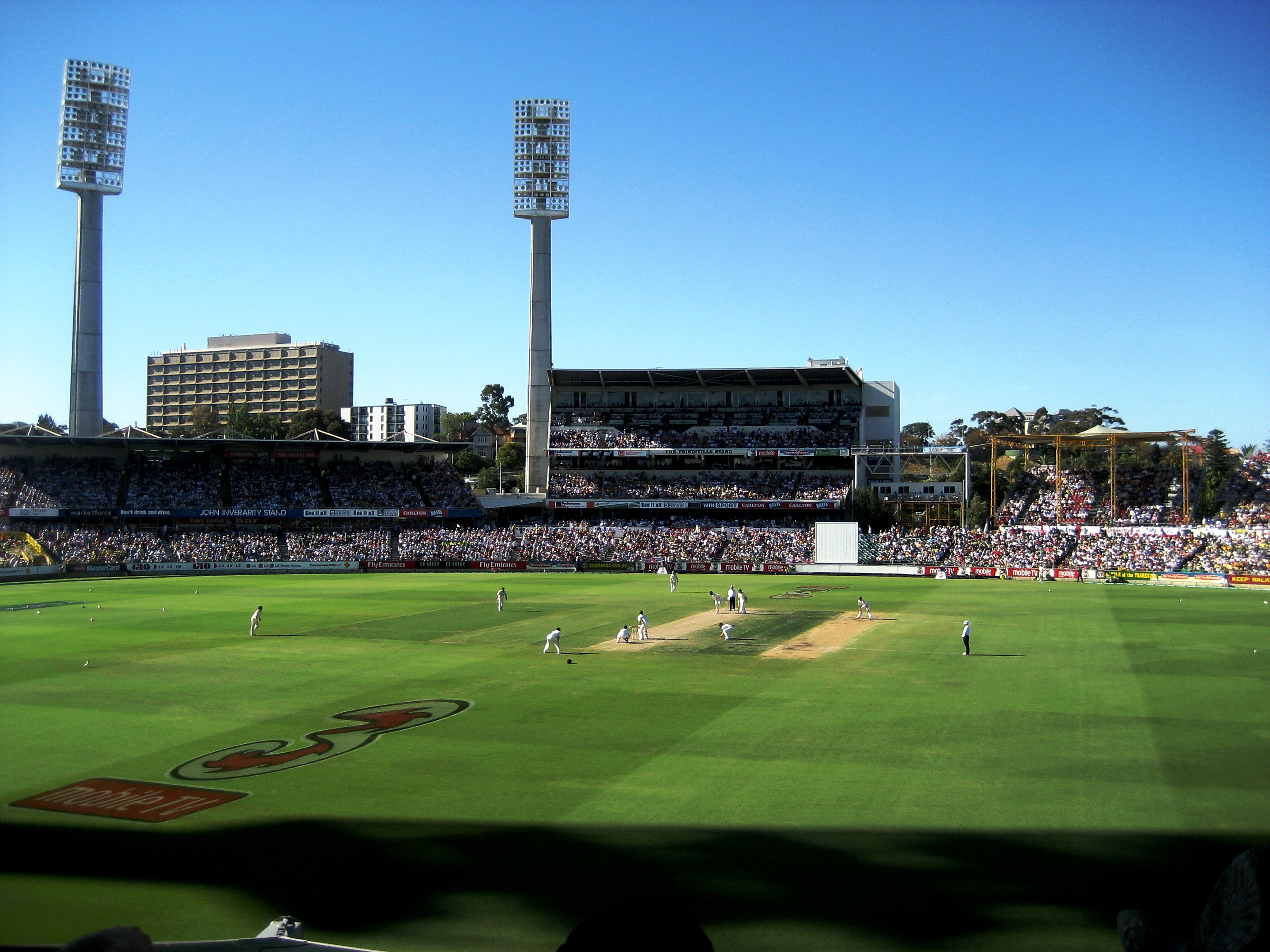 Late on day 2, 3rd England Australia Test Decemeber 2006, Perth. Panesar bowling to Hayden. Ponting at bowlers end. Source: —Moondyne